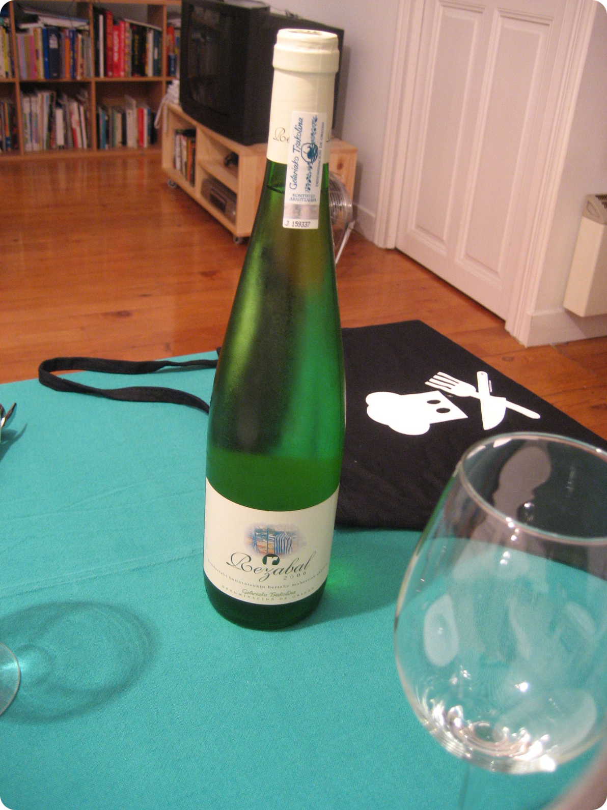 Txakoli bottle. Txakoli or chacolí' , is a Basque variety of wine, usually white. This bottle has labels of Getariako Txakolina origin denomination